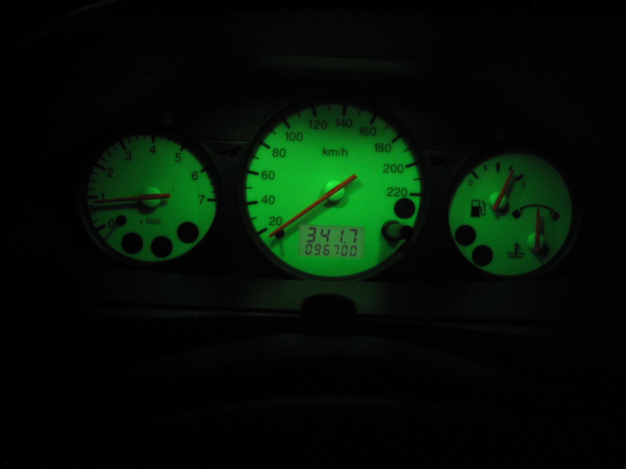 Ford Puma